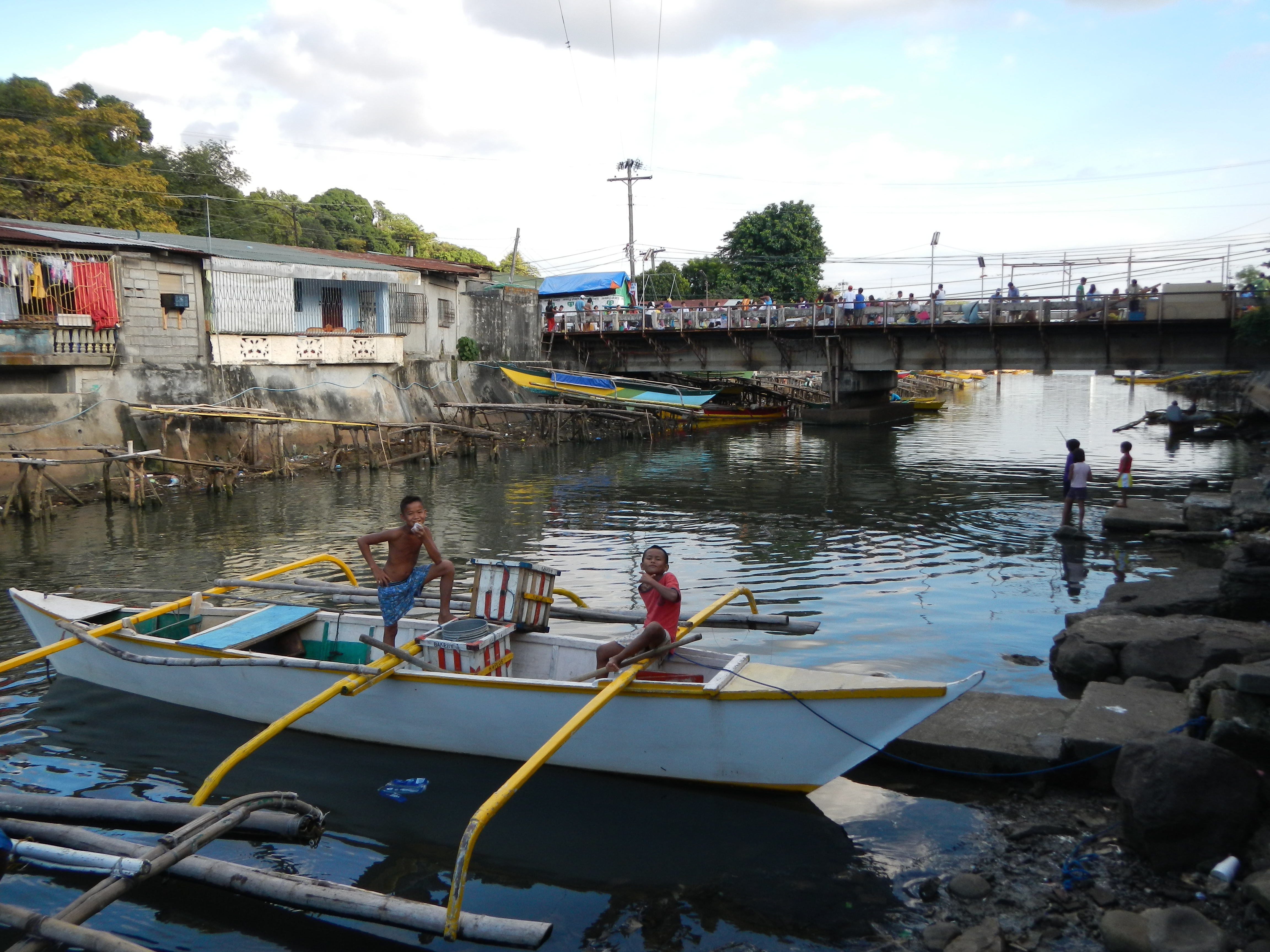 [1]Mariveles, Bataan is a 1st class municipality in the province of Bataan, Philippines. According to the 2007 census, it has a population of 102,844 people in 19,460 households. Population growth rate per annum is 4.71%, twice that of the province itself.[2]